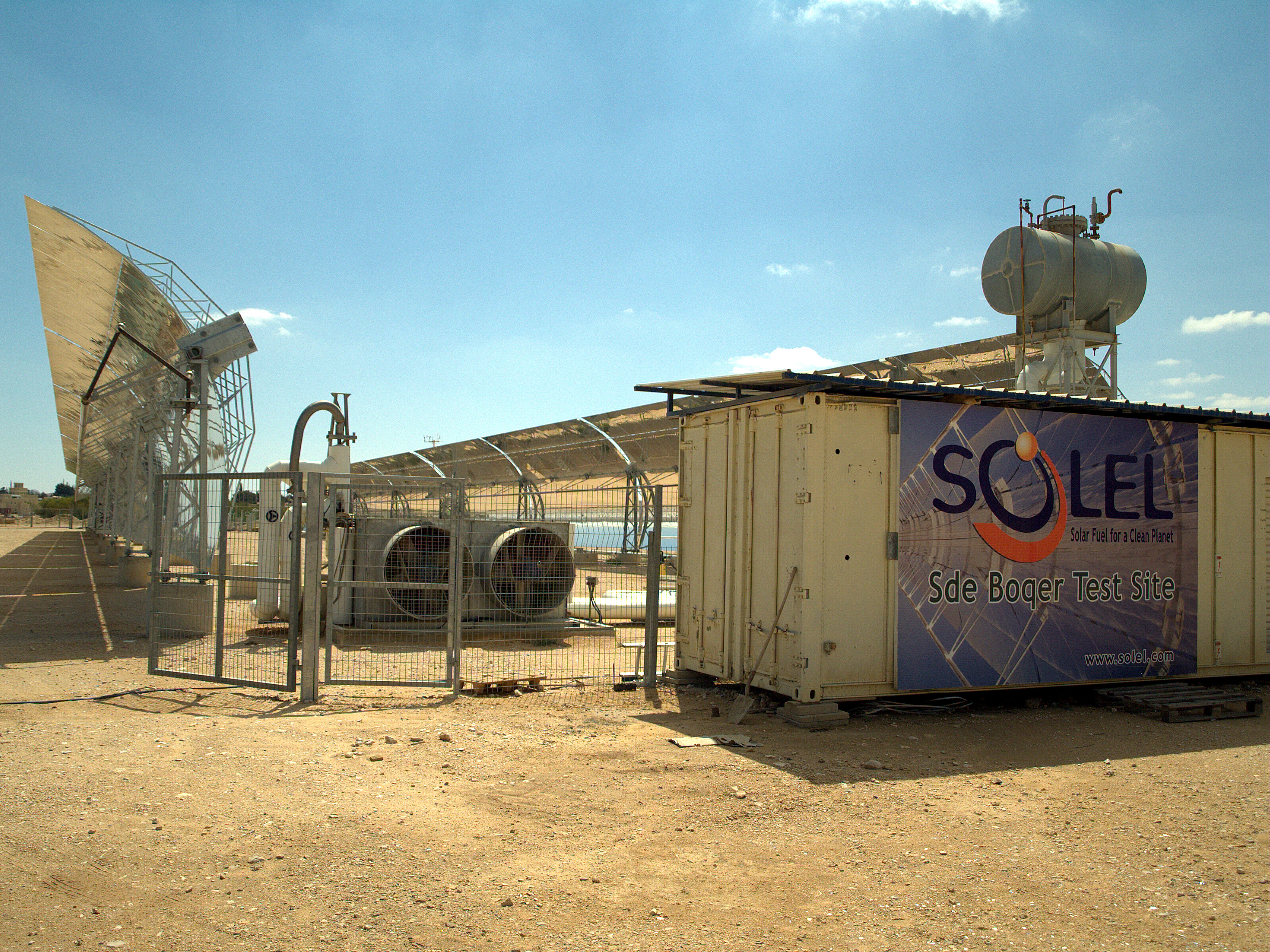 Solel solar energy testing center at the National Solar Energy Center in the Negev desert in Israel.